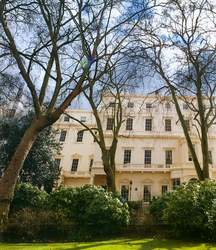 The front of the British Academy.